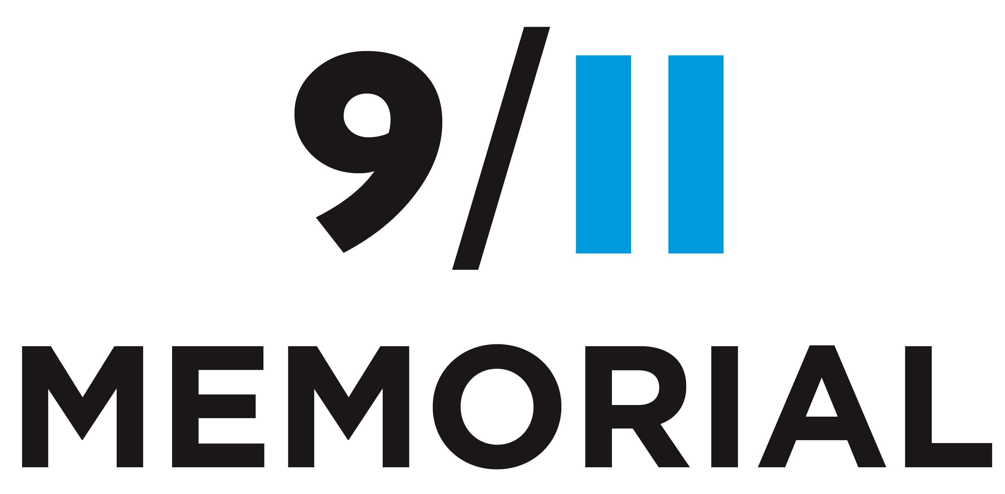 9/11 Memorial logo